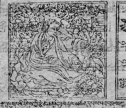 The Tibetan Master of Sinotibetan Divination (nag rtsis) Minyag Gyetshen Pel Sangpo (early 14th century from a Tibetan blockprint of the Vaidurya dkar po (1685)